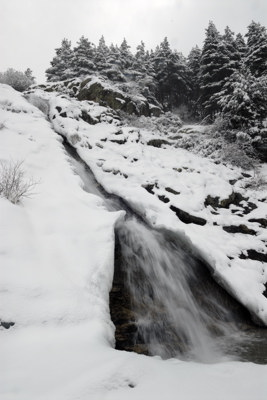 Chorrera San Mames (Madrid)